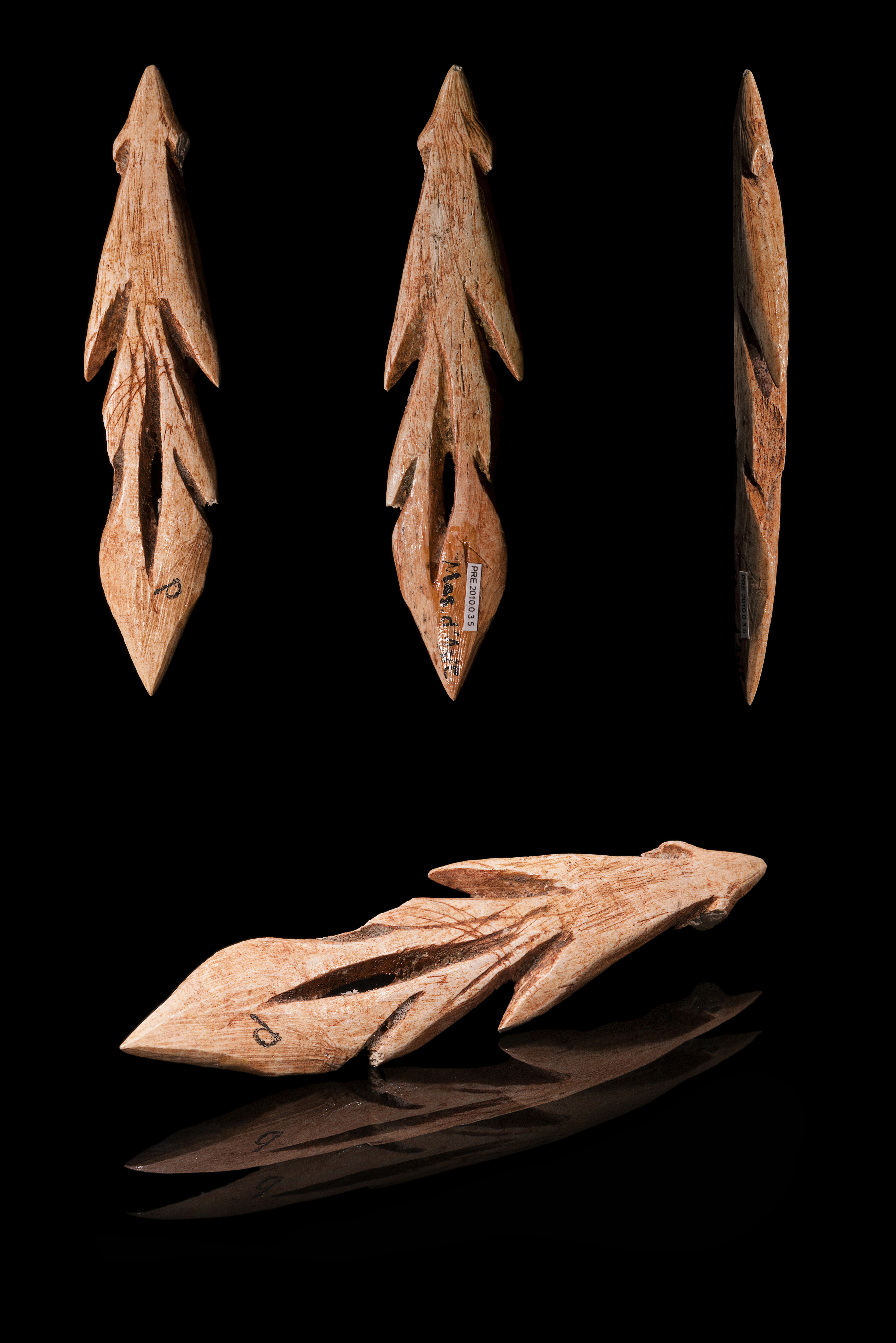 4 views of the same specimen. Focus stacking.